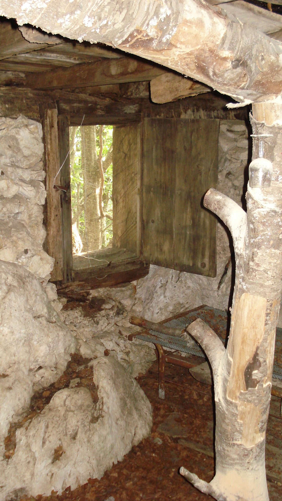 Photo showing the inside of the house of the French painter Charles Moulin. Under the small window you can see a part of the framework of the bed where the artist slept